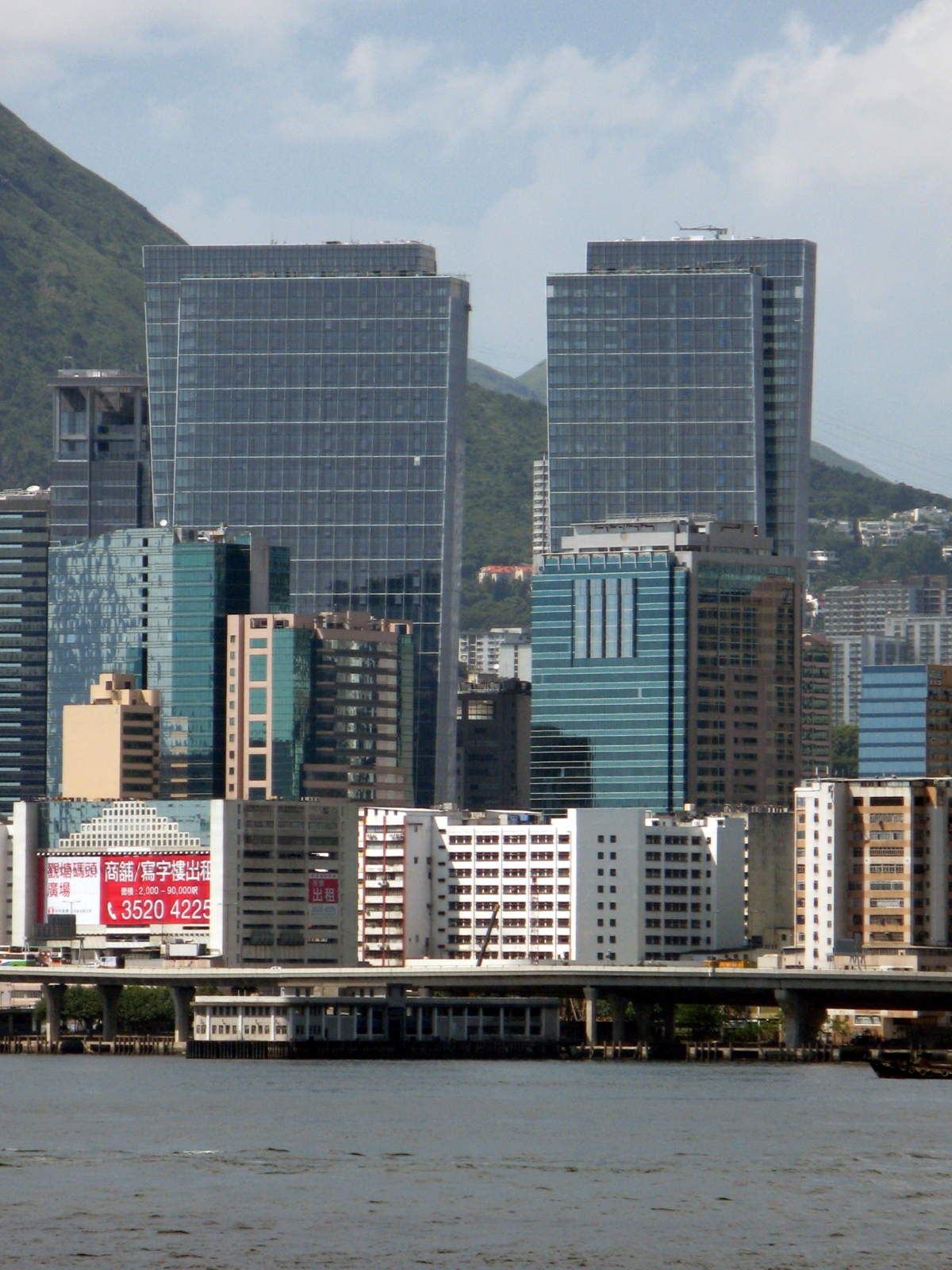 HK Landmark East 城東誌